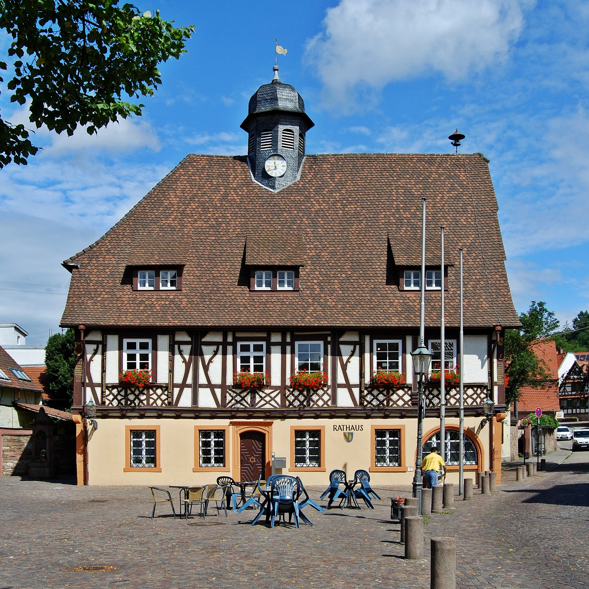 The town hall of Grötzingen (part of Karlsruhe since 1974), Baden-Württemberg.